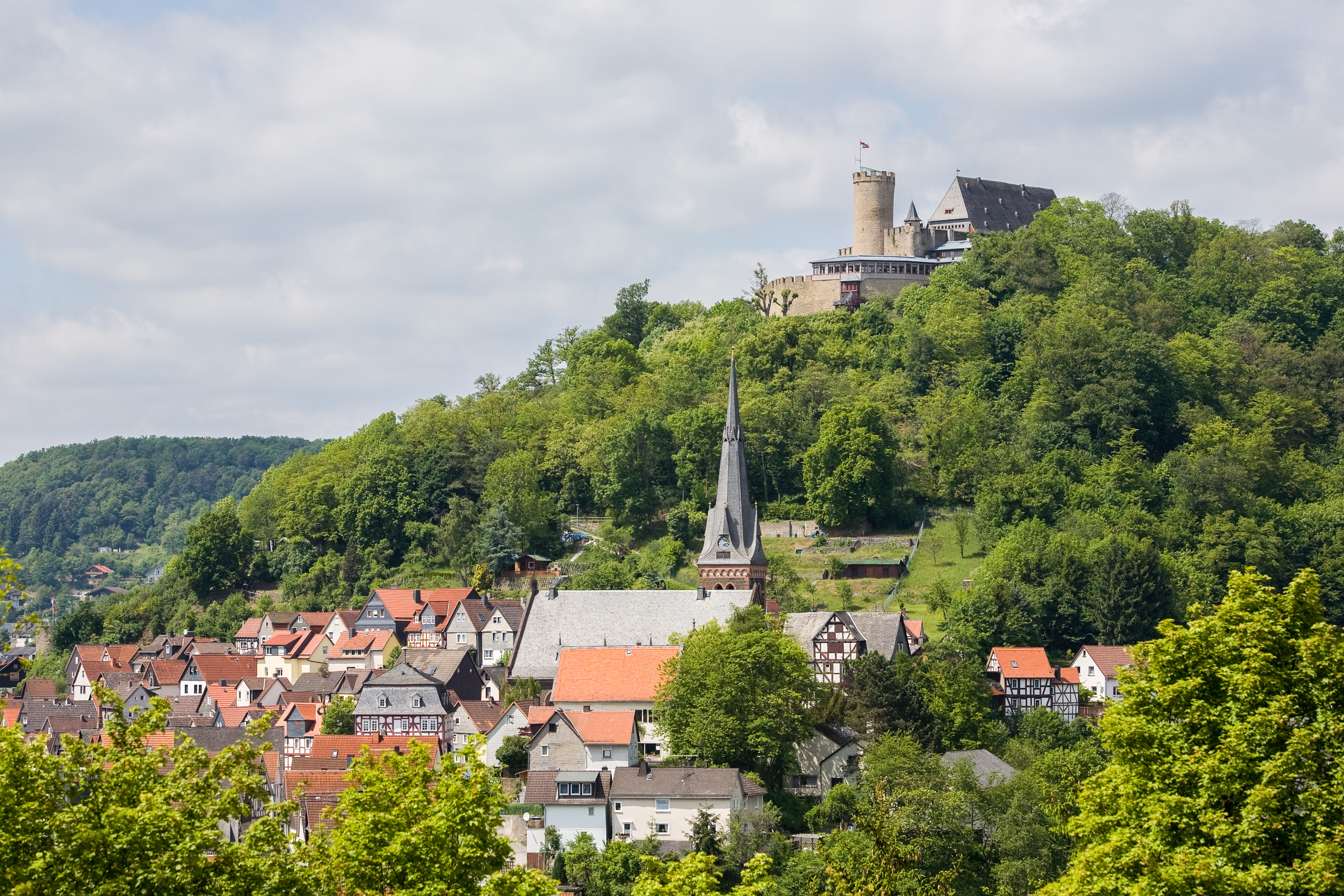 View of town Biedenkopf